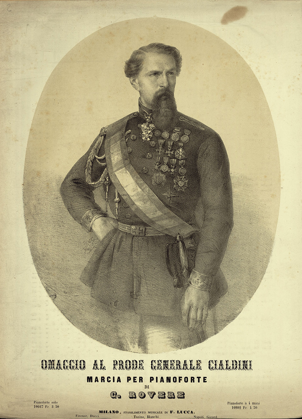 Portrait of Enrico Cialdini, politician (1811-1892). Omaggio al prode generale Cialdini - Marcia per pianoforte.